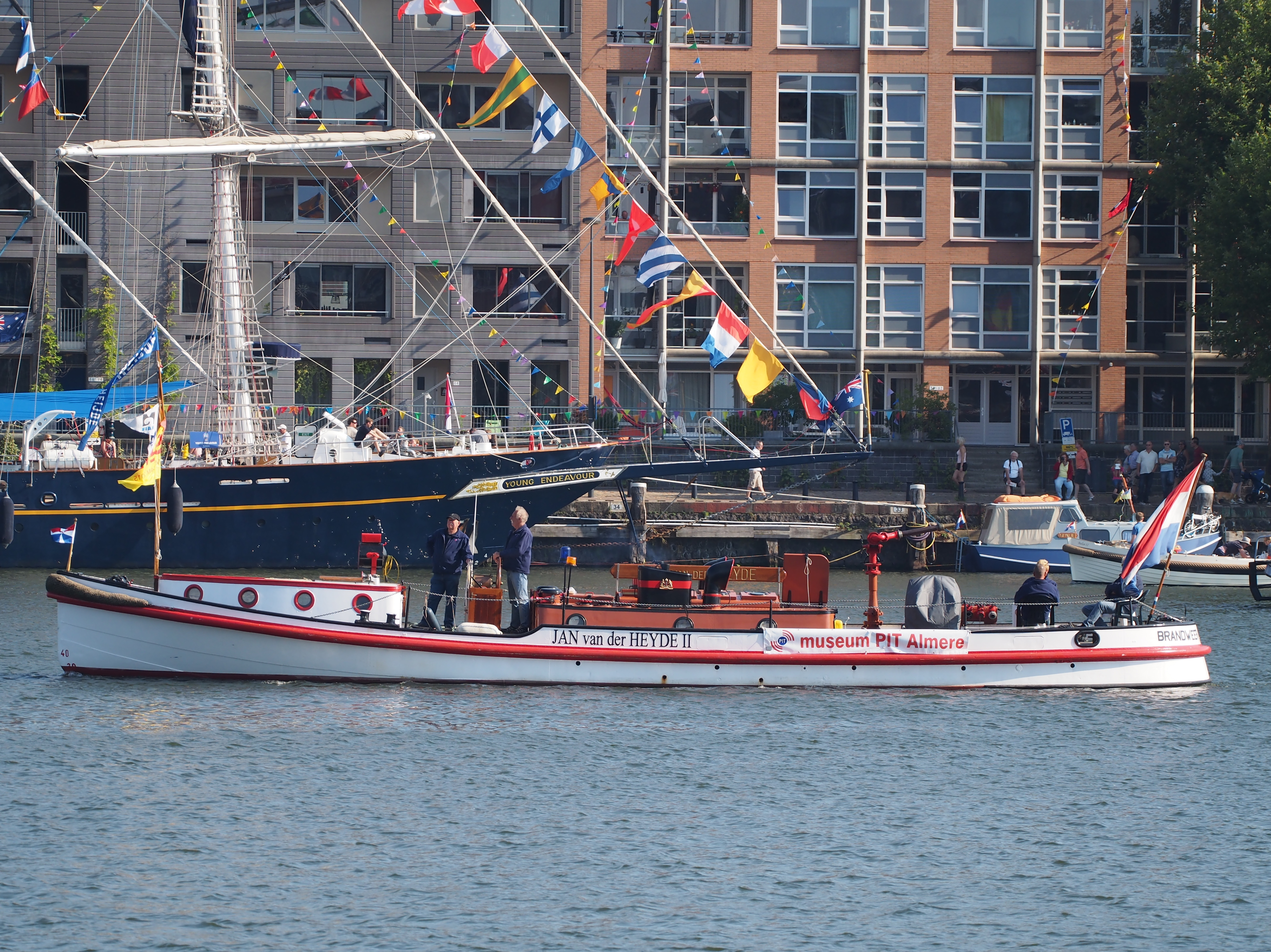 Photographed at the last day of SAIL.